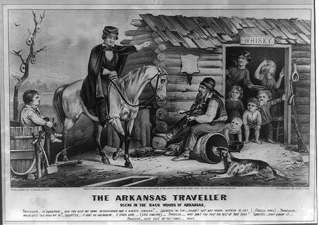 The inscription reads: "Traveller...to squatter": Can you give me some refreshments and a nights lodging? Squatter: no Sir...Haven't got any room,nothing to eat (Fiddles away) Traveller: Where does this road go to? Squatter: It don't go anywhere, it stays here (still fiddling) Traveller: Why don't you play the rest of that tune? Squatter: ...Don't know it... Traveller: Here, give me the fiddle...plays